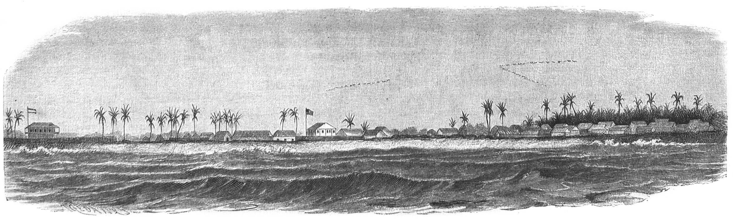 caption: "Little Popo. Nach einer Originalskizze von Dr. Pechuel-Loesche."